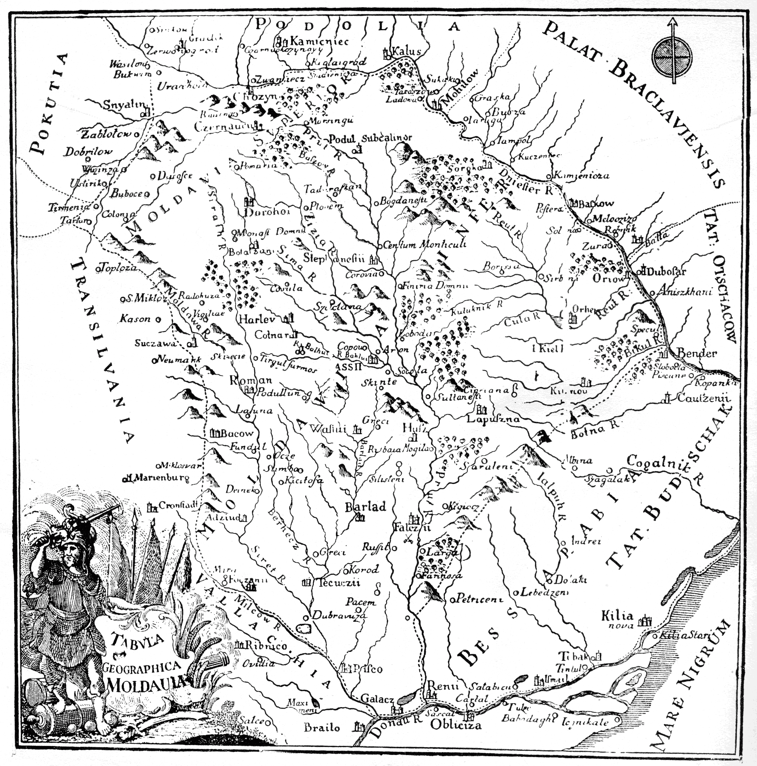 Moldova in the 1700s. Map created by an anonymous cartographer after the original map of Dimitrie Cantemir (early 1700s) and the map of August Gotlob Boehm (Nurnberg, 1765). It appeared in the first German edition of Descriptio Moldaviae (editor: Büsching, 1769-1770).